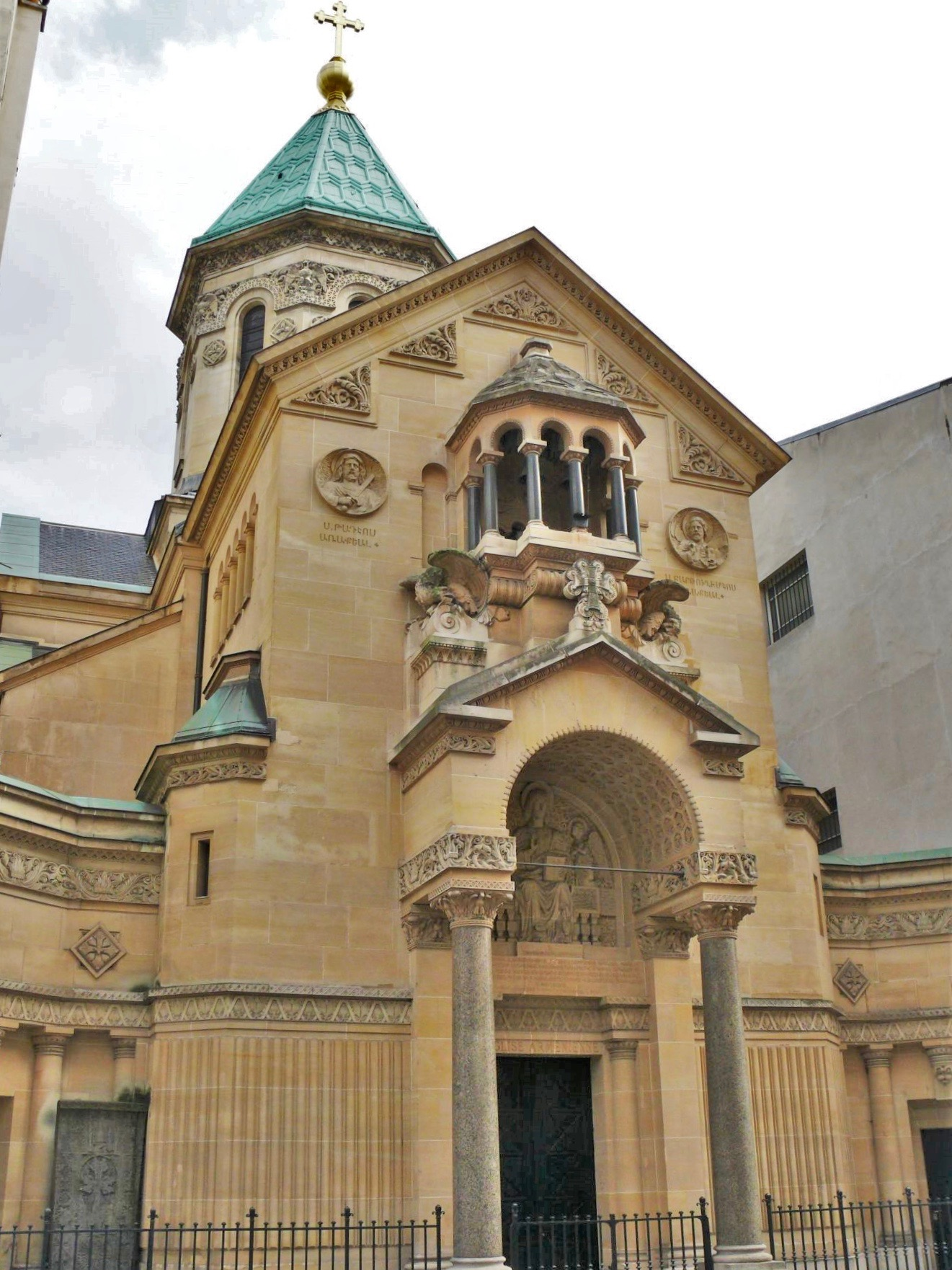 Saint-John-the-Baptist's Armenian church (Paris VIII, France)